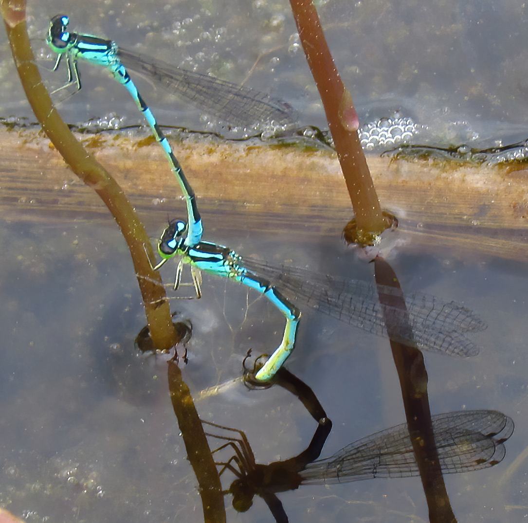 Taiga Bluets (Coenagrion resolutum), laying eggs, Mer Bleue Conservation Area, Ottawa, Ontario, Canada